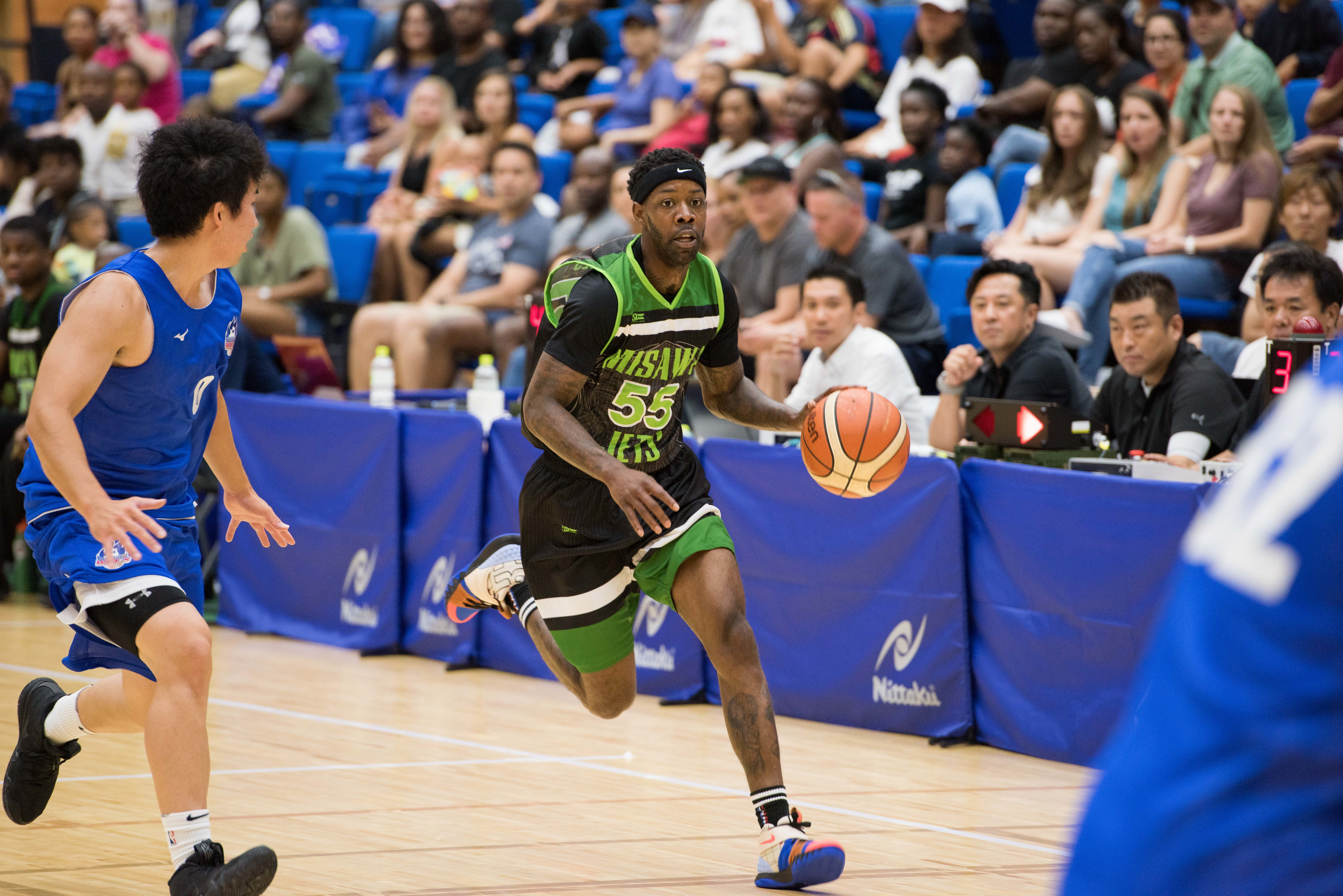 Dre Forbes, a Misawa Jets and Team Misawa member, dribbles the ball down the court during the Aomori Wat’s and Misawa Jets exhibition game at the Misawa International Sports Center in Misawa City, Japan, Aug. 18, 2018. Although the final score resulted in a Wat’s win, 104-75, the Jets’ coach said his team knew the game was more about building relations with the Japanese community and he thinks they achieved that feat. (U.S. Air Force photo by Tech. Sgt. Benjamin W. Stratton)